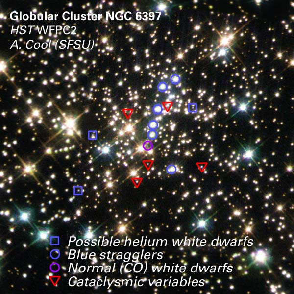 Blue Stragglers in NGC 6397, Population of white dwarves in the globular cluster NGC 6397